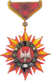 Hero of the Kirghiz Republic. Special sign "Ak-Shumkar"